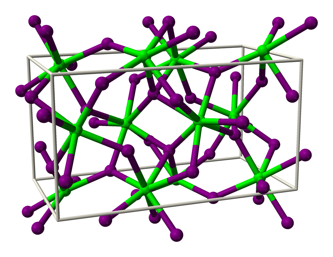 Ball-and-stick model of the unit cell of strontium iodide, SrI2. X-ray crystallographic data from Z. Kristallogr. (1969). 128 430